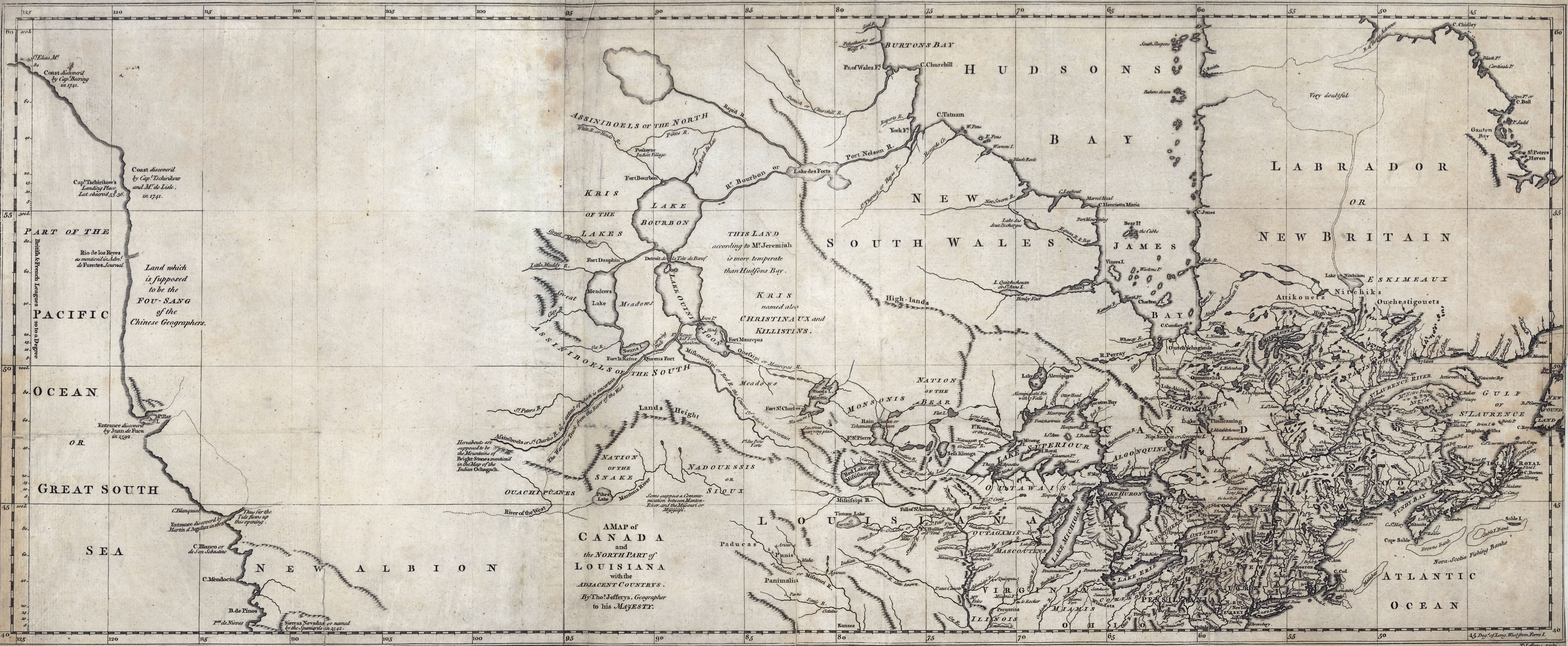 A map of Canada and the north part of Louisiana with the adjacent countrys. By Thos. Jefferys, geographer to His Majesty, 1762.